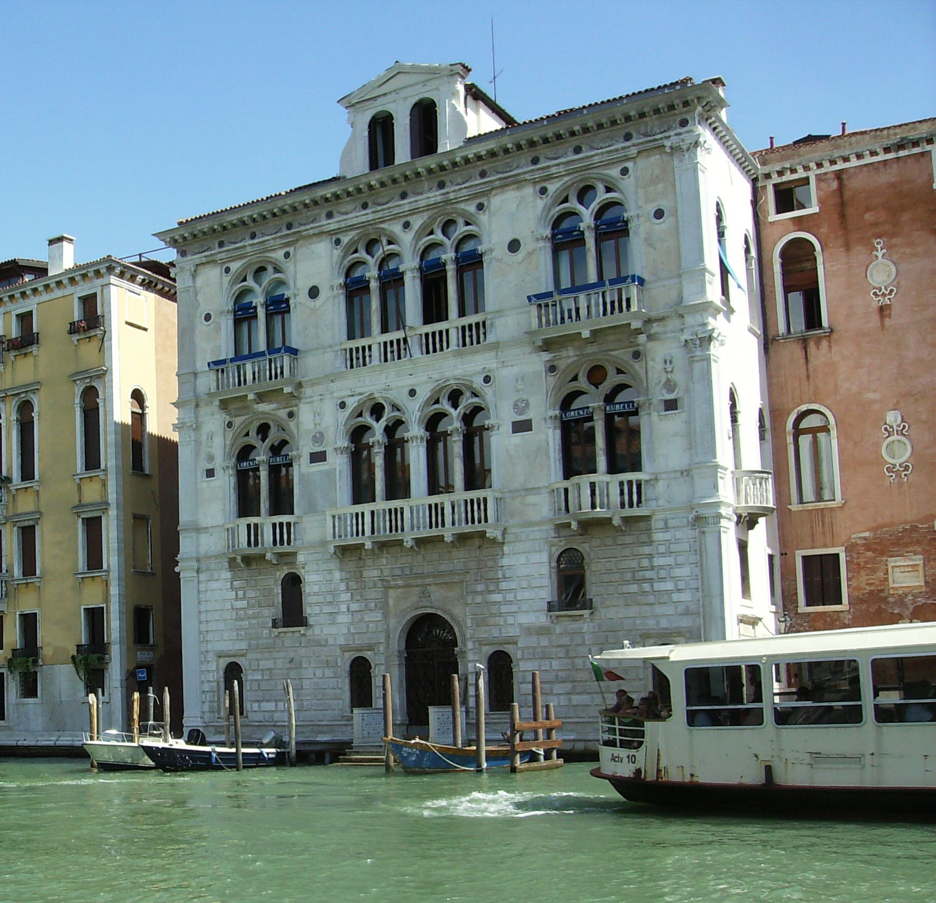 palazzo corner spinelli